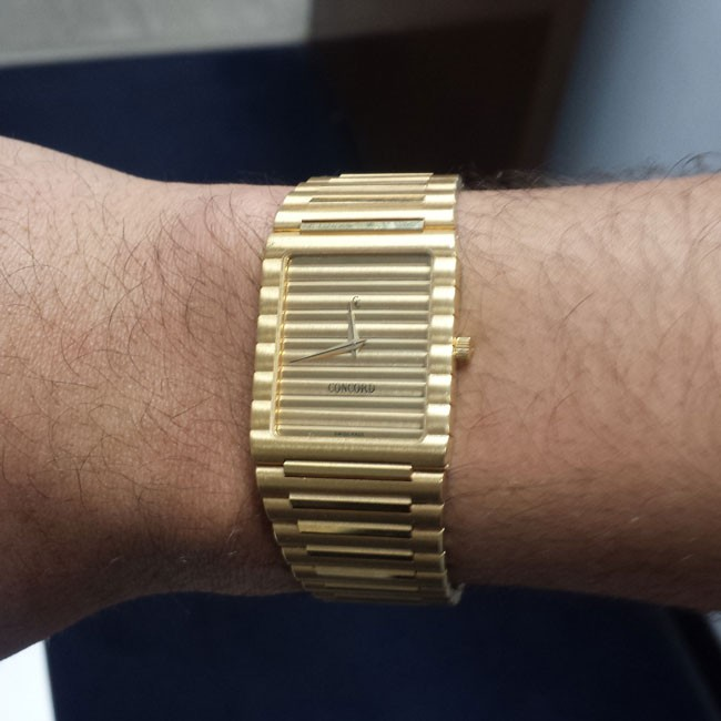 An example of a 18K solid gold Concord Centurion circa early 1980's.